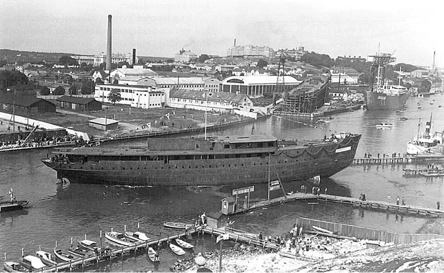 Launching of NB-751 (later named SS Bore II) in Crichton-Vulcan shipyard in Turku, Finland.